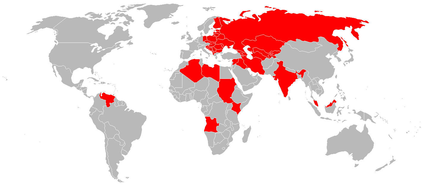 T-72 users